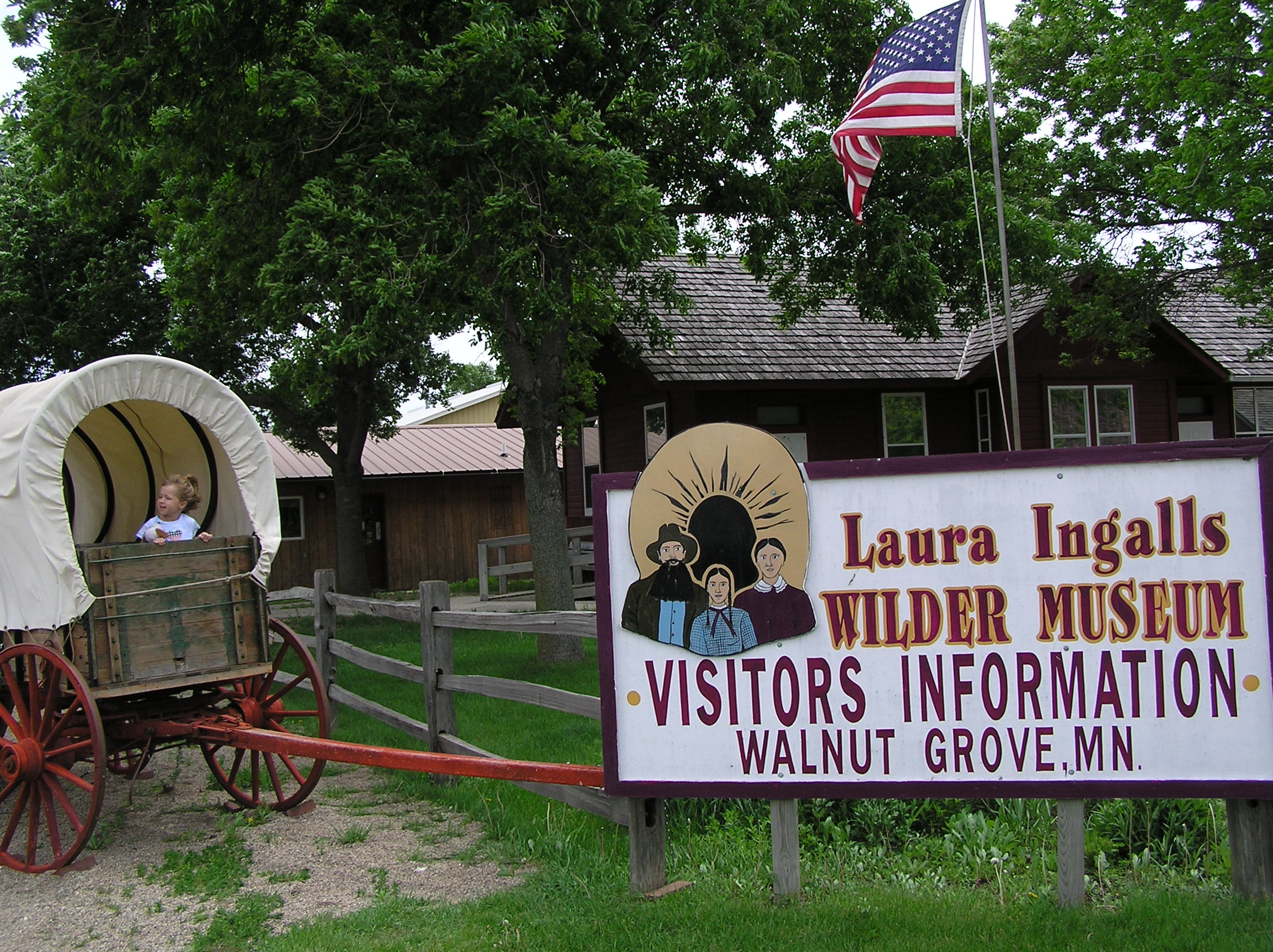 Entrance to the Laura Ingalls Wilder Museum in Walnut Grove, Minnesota.